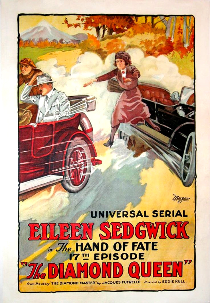 Poster for chapter 17 of the American film serial The Diamond Queen (1921).